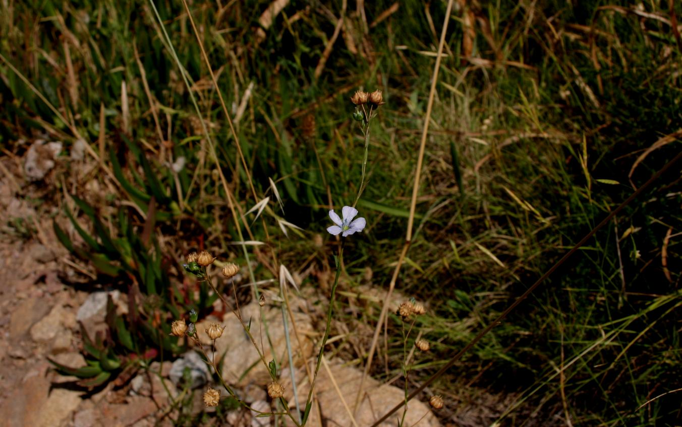 Linum bienne: Flowers. Picture taken near the coast of Corsica in maquis-vegetation.